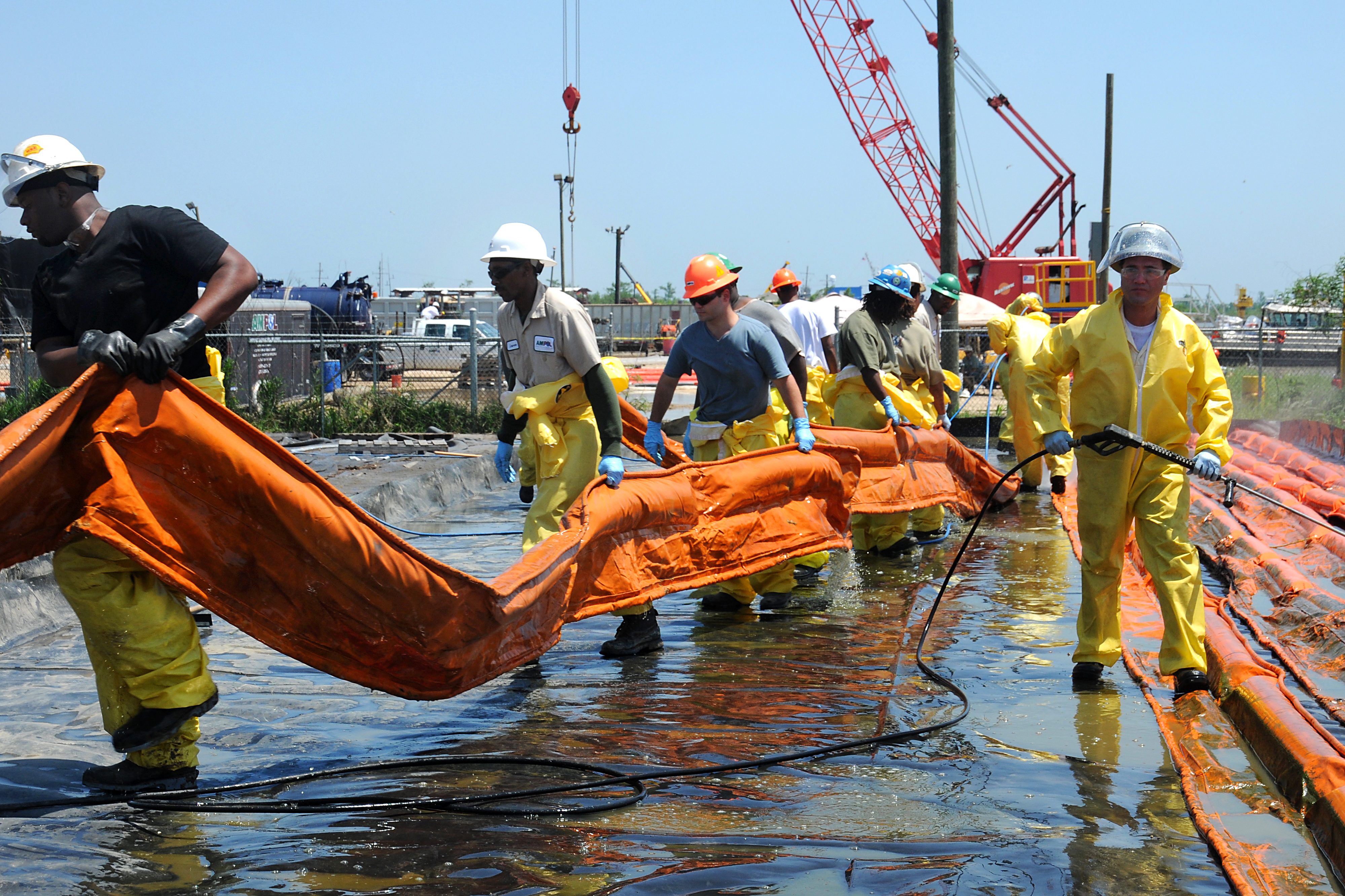 Workers at a decontamination site carry an oil containment boom that was cleaned in Venice, La., May 4, 2010. The boom is to be transferred to a staging area where it will be put back into service aboard one of the many boats fighting to mitigate the effects of the oil discharge from the Deepwater Horizon incident.